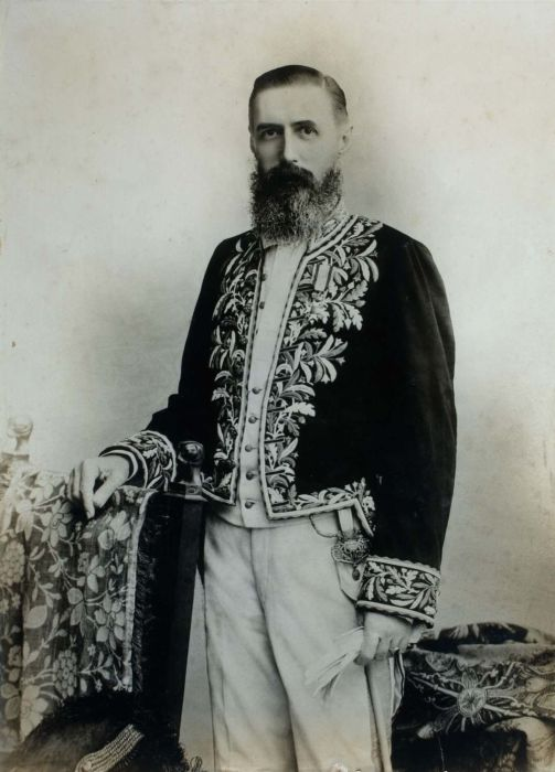 Studio portrait of civil servant P.C. Arends, Resident of Madura